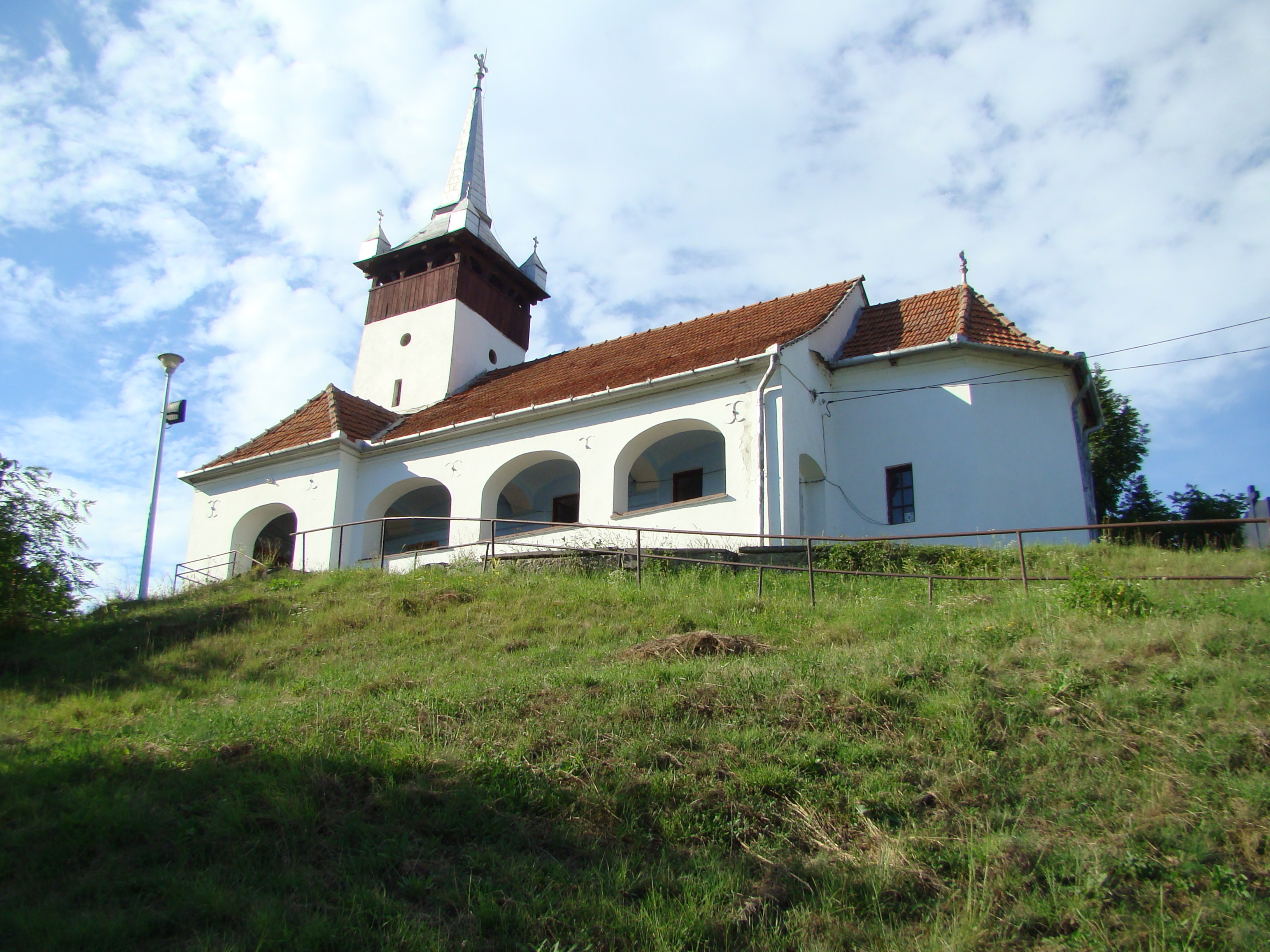 Church of the Dormition in Livezile, Alba county, Romania